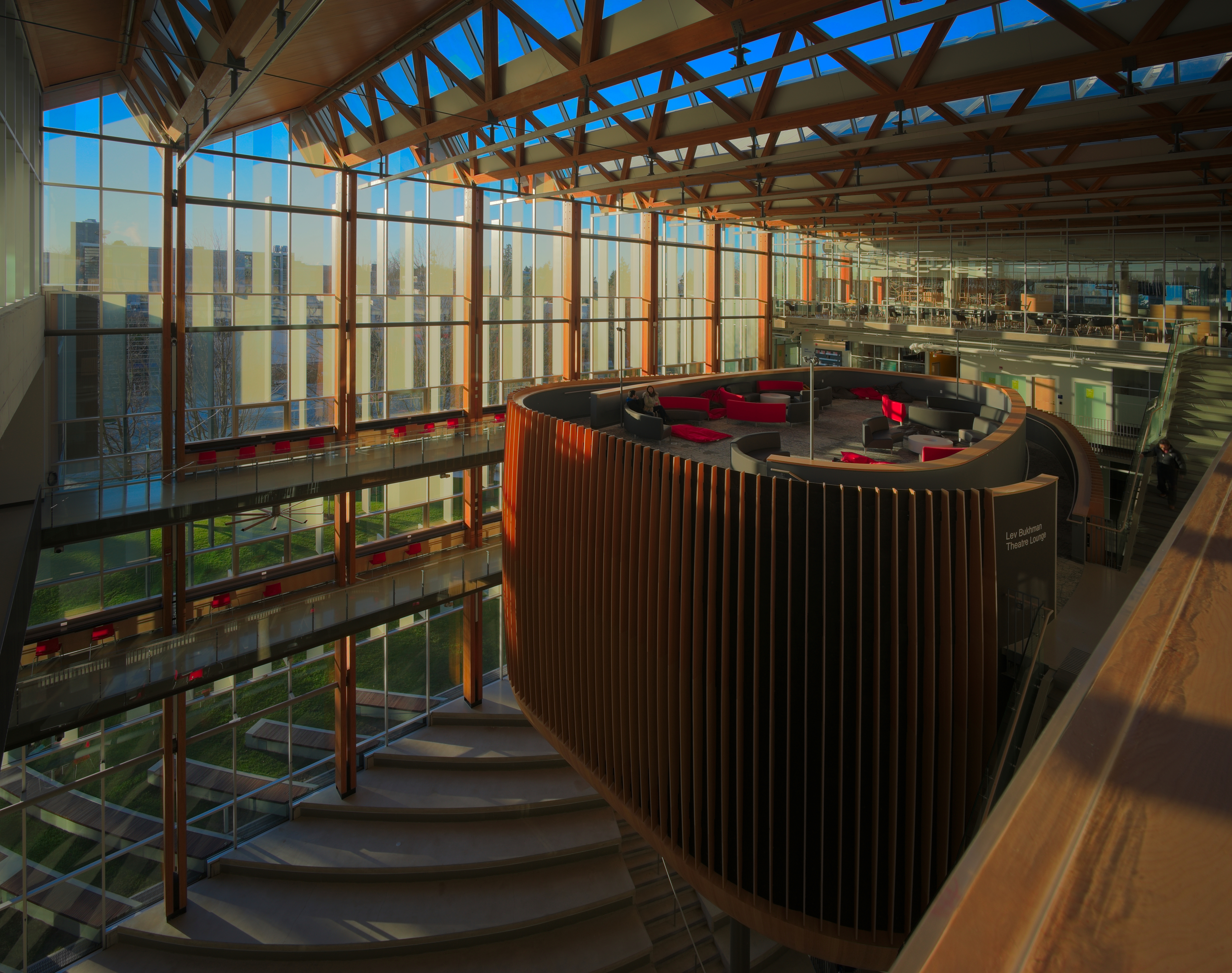 The Student Union Building (SUB) at the University of British Columbia in Vancouver, British Columbia, Canada. The new SUB, constructed for $107-million, opened in 2015 and contains numerous amenities including a performance centre, an art exhibition space, a large ballroom, a three-storey climbing wall, radio broadcast facilities, a daycare, and a 10,740 square foot rooftop garden and public space with a water feature and outdoor seating